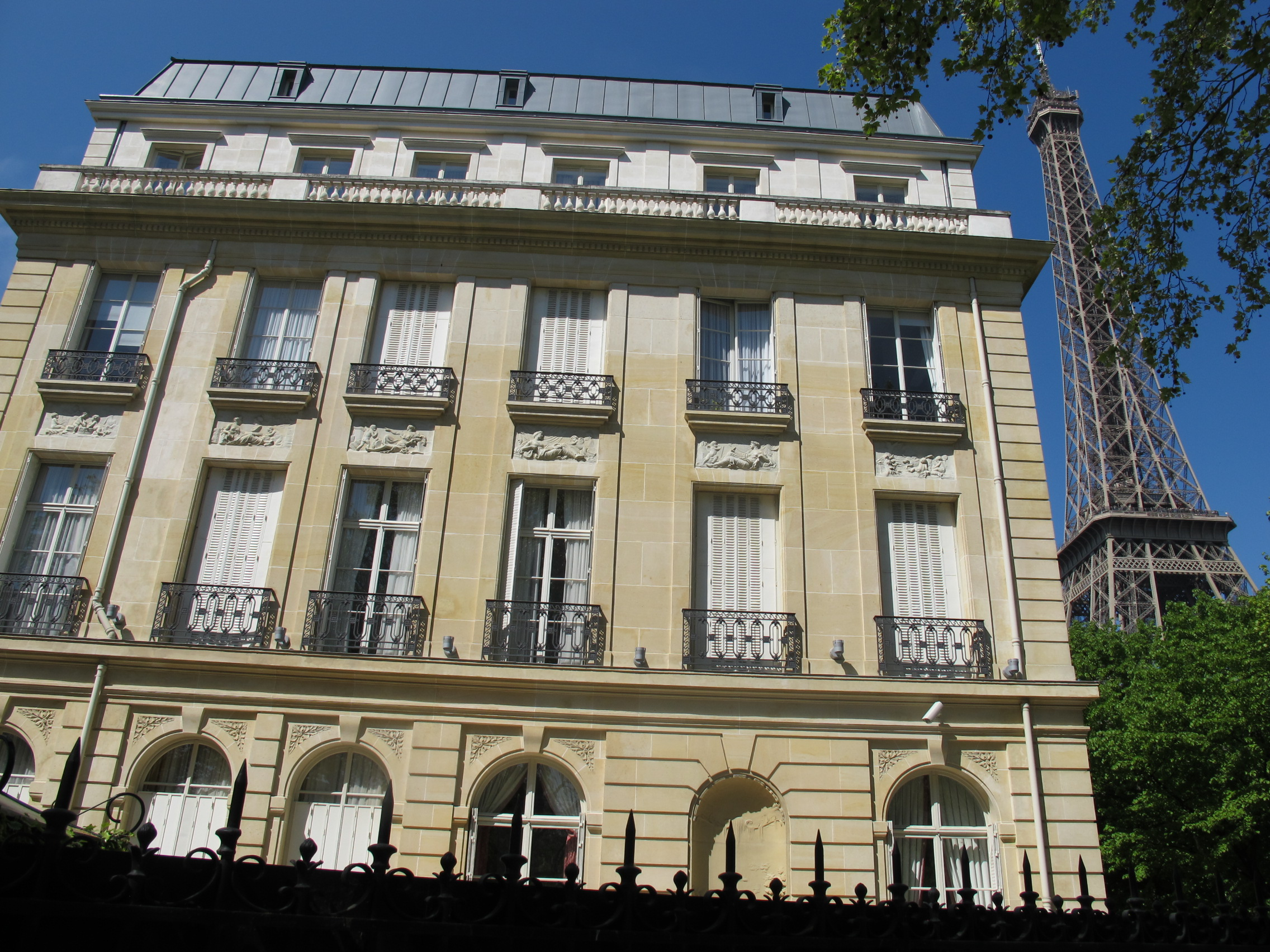 Czech Embassy, Paris